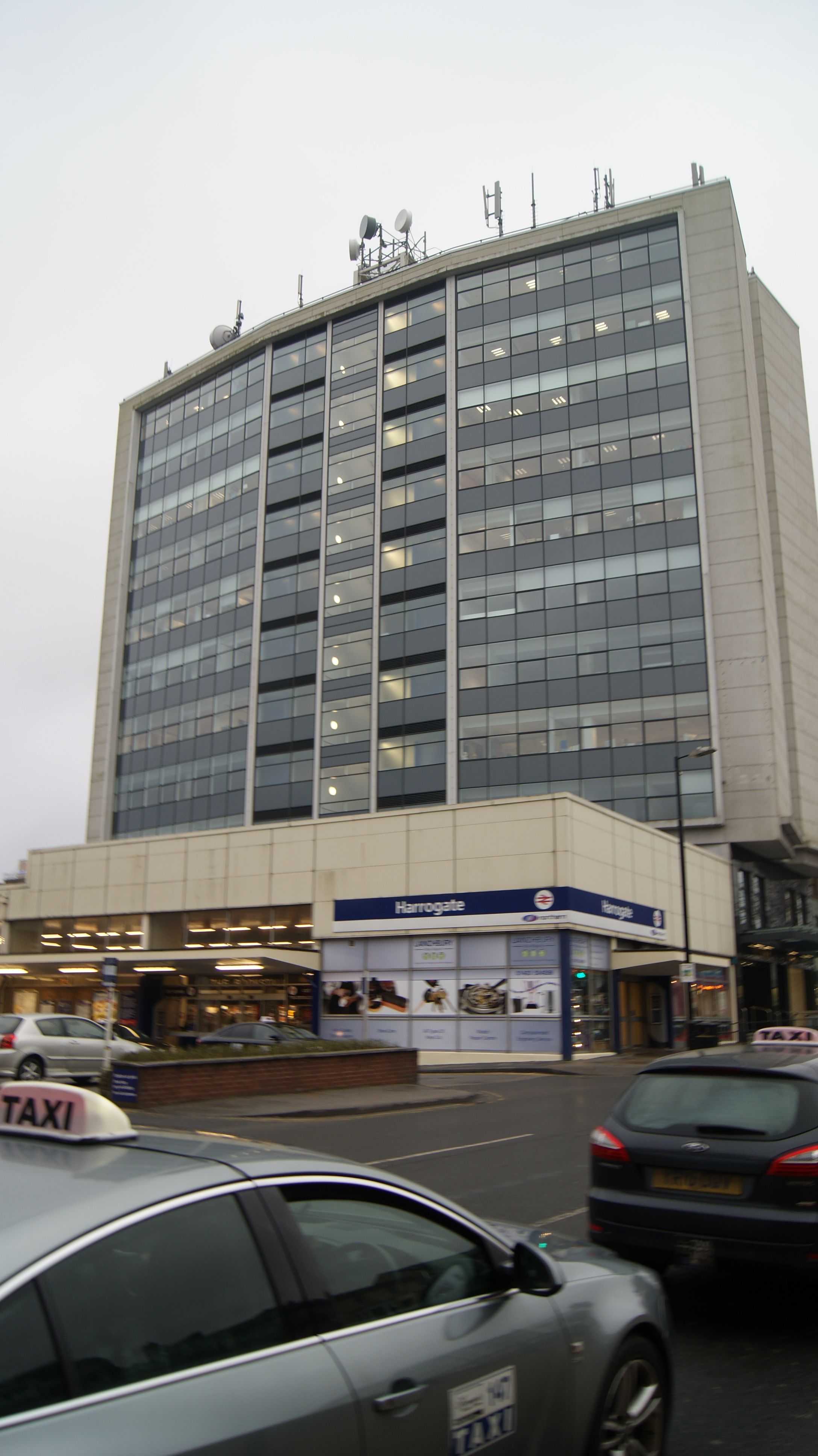 Harrogate Railway Station and office block from the opposite side of Station Parade in Harrogate, North Yorkshire. Taken on the afternoon of Monday the 25th of February 2013.